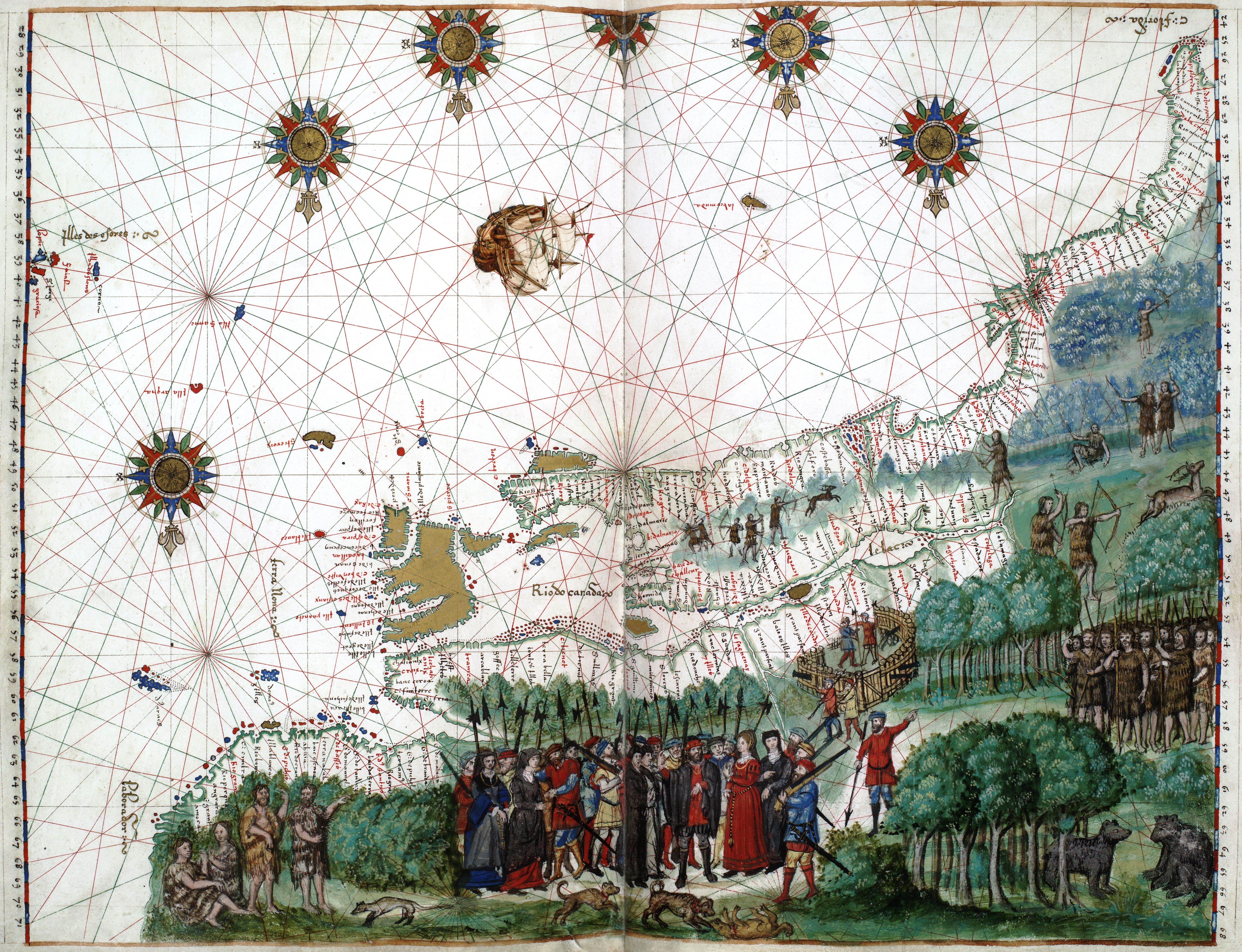 Golfe du Saint-Laurent One of the maps from the atlas of Nicolas Vallard. It shows the eastern part of North America. Note : in this reproduction, north points to the bottom.